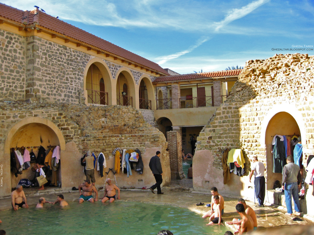 The Roman bath, Circular Pool Aquae Flaviane "Hammam Essalhine" Aures Khenchela